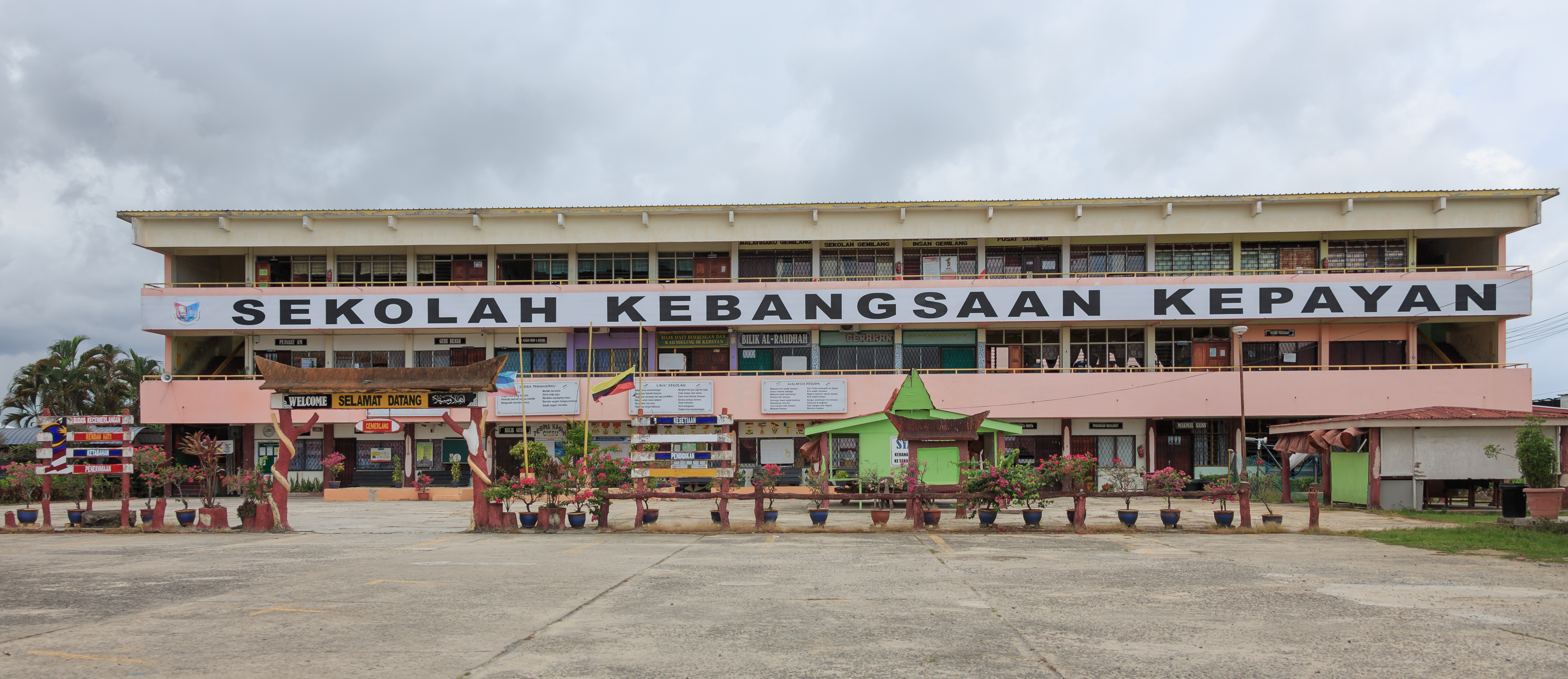 Kepayan, Kota Kinabalu, Sabah: Sekolah Kebangsaan Kepayan (SK Kepayan), a primary school in Kota Kinabalu District